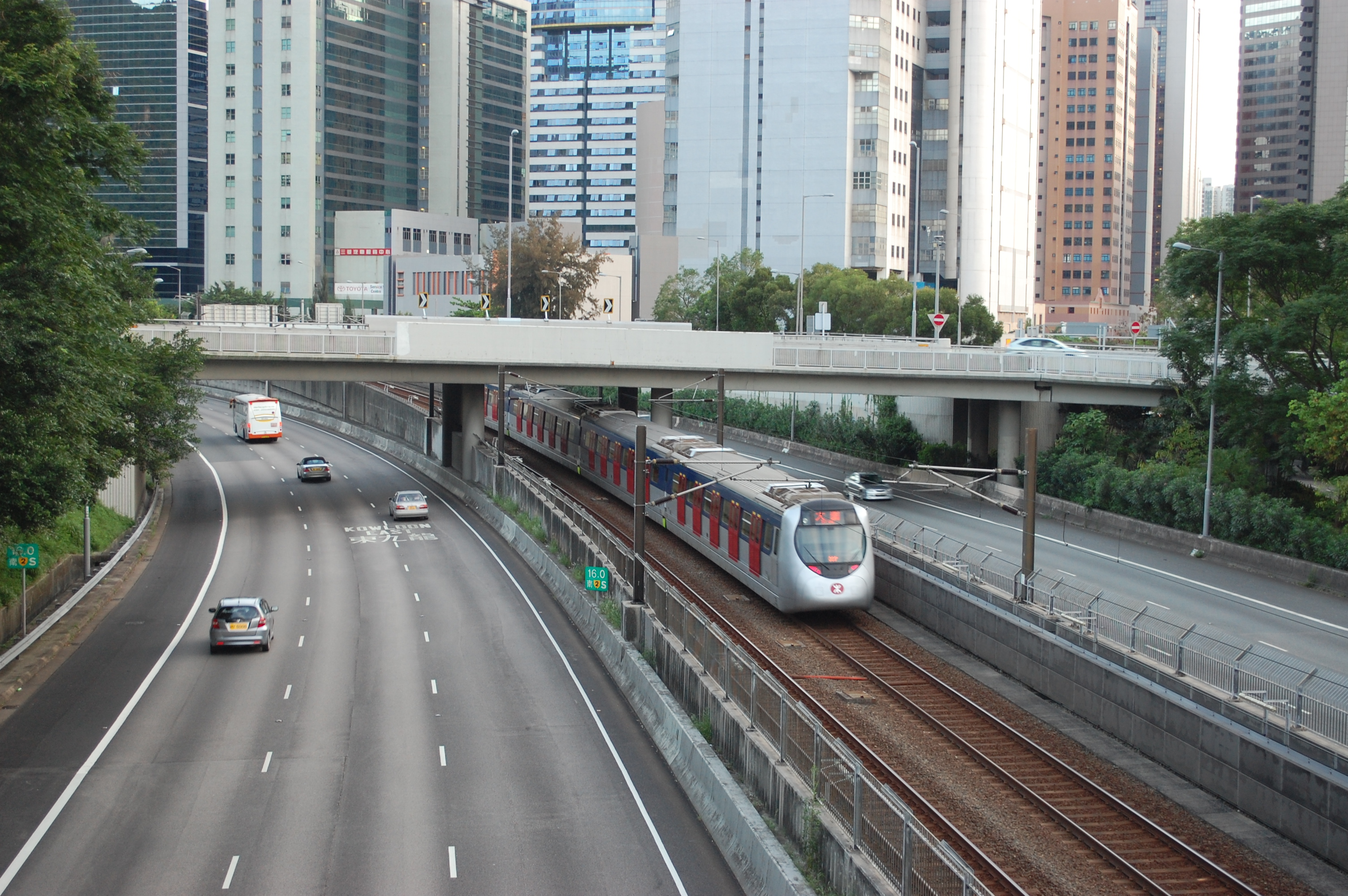 South-facing view of the Ma On Shan Line, just north of Shek Mun Station.